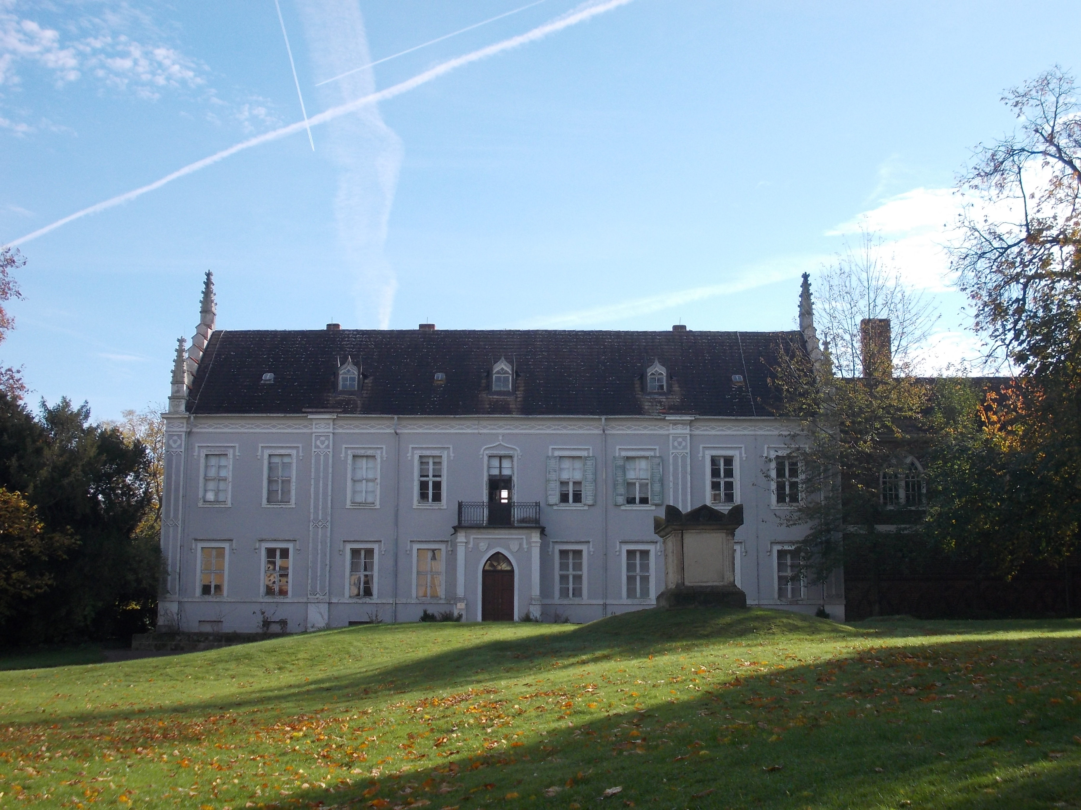 Grey House in Wörlitz (Oranienbaum-Wörlitz, Wittenberg district, Saxony-Anhalt)